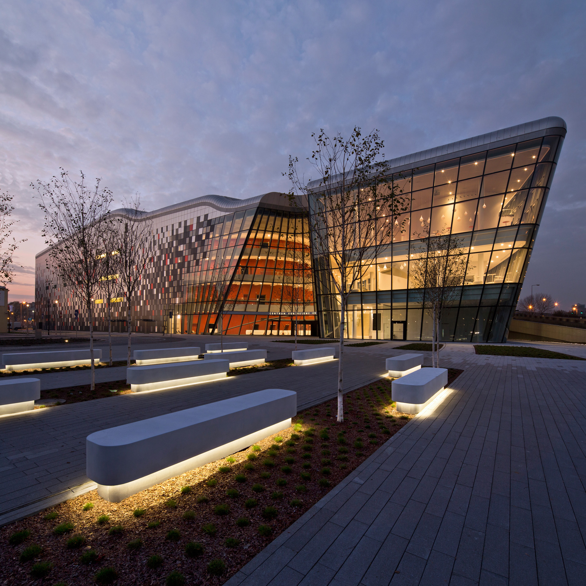 ICE Krakow Congress Centre (2014), Krakow, Poland, designed by Ingarden & Ewy architects,Krakow, Poland, collaboration A,Isozaki & Assoc, Tokyo